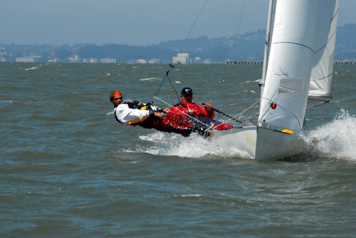 Flying Junior World Championship 2007 San Francisco, World Champions Wanders/Wortberg